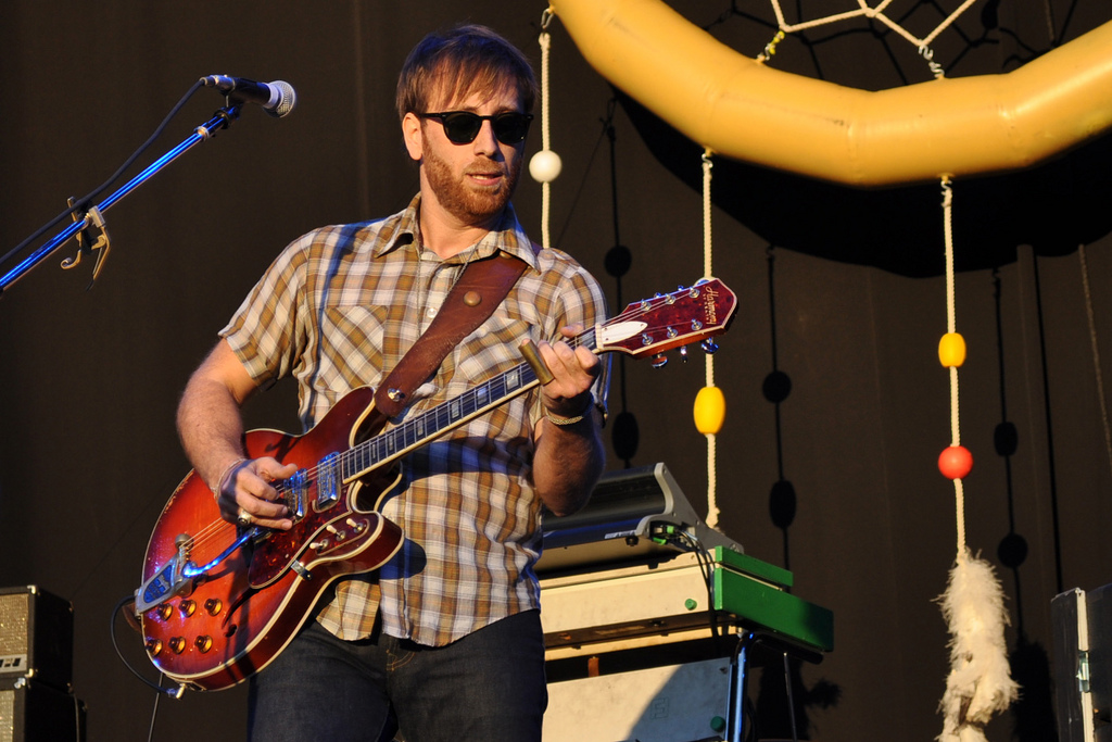 Dan Auerbach of the Black Keys @ Music Midtown (Piedmont Park) in Atlanta, GA on September 24, 2011. All trademarks are the property of their respective owners. All photos provided with a creative commons share-alike license. Use freely for commercial or non-profit use but give attribution to "Mark Runyon" and link to ConcertTour - You are responsible for securing any other rights required to reproduce these images for your own use.